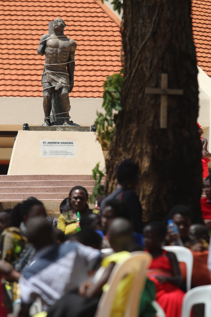 Monument of Andrew Kaggwa, erected in Munyonyo on the spot were he was martyred on 26May 1886.